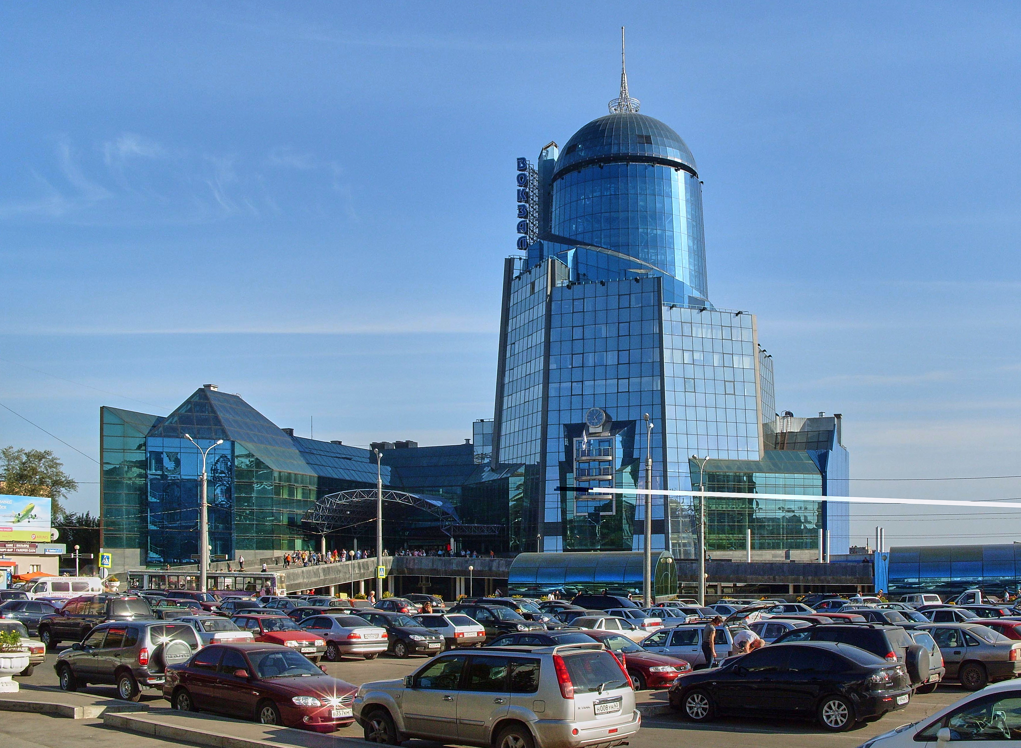 Samara train station